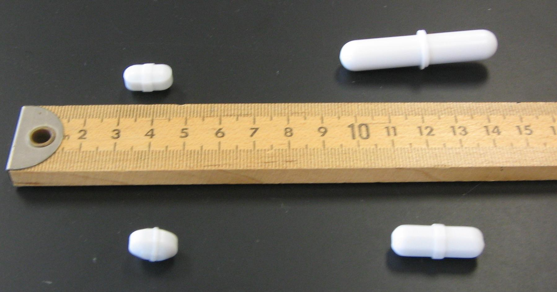 Four magnetic stir bars with a meter stick (cm scale) for size comparison.